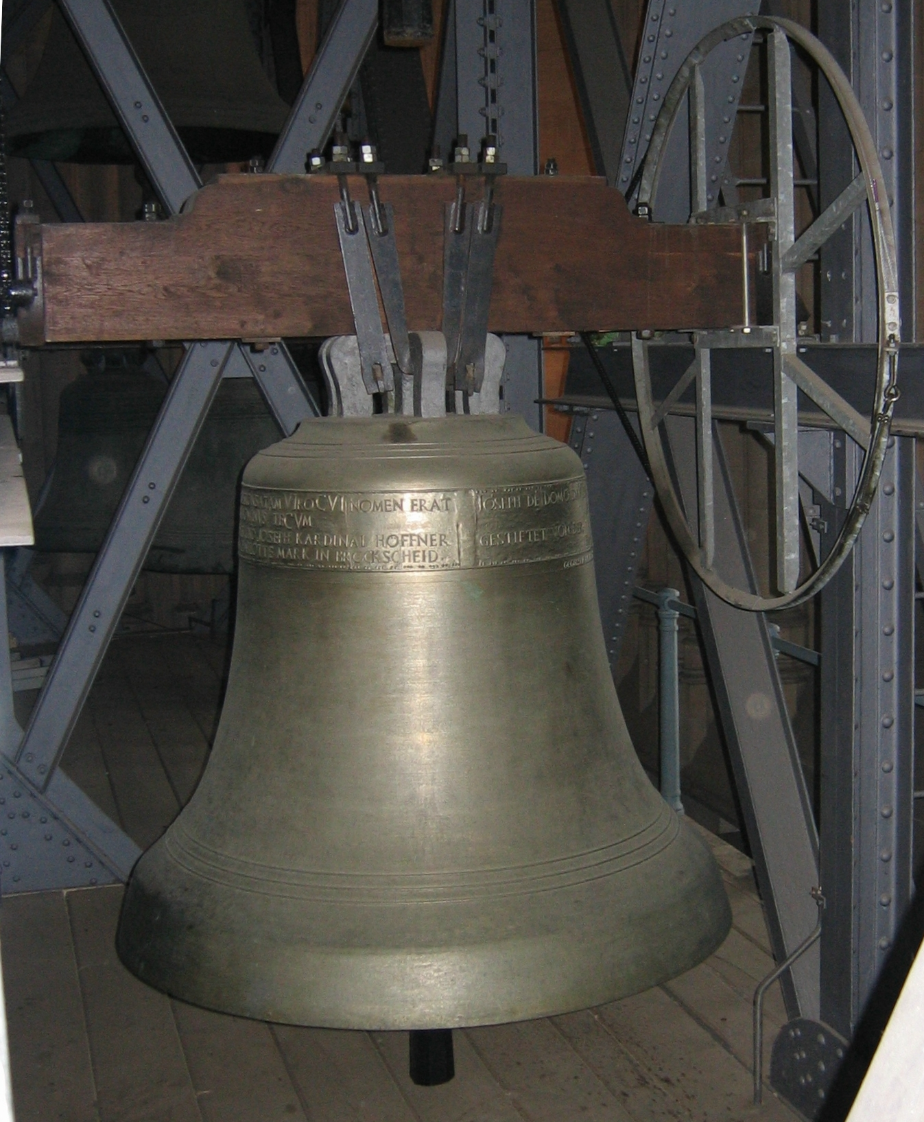 Description – Josephsglocke. Sechste Glocke des Kölner Domes. Source – own work Date – Sommer 2006 Author – Andreasdziewior